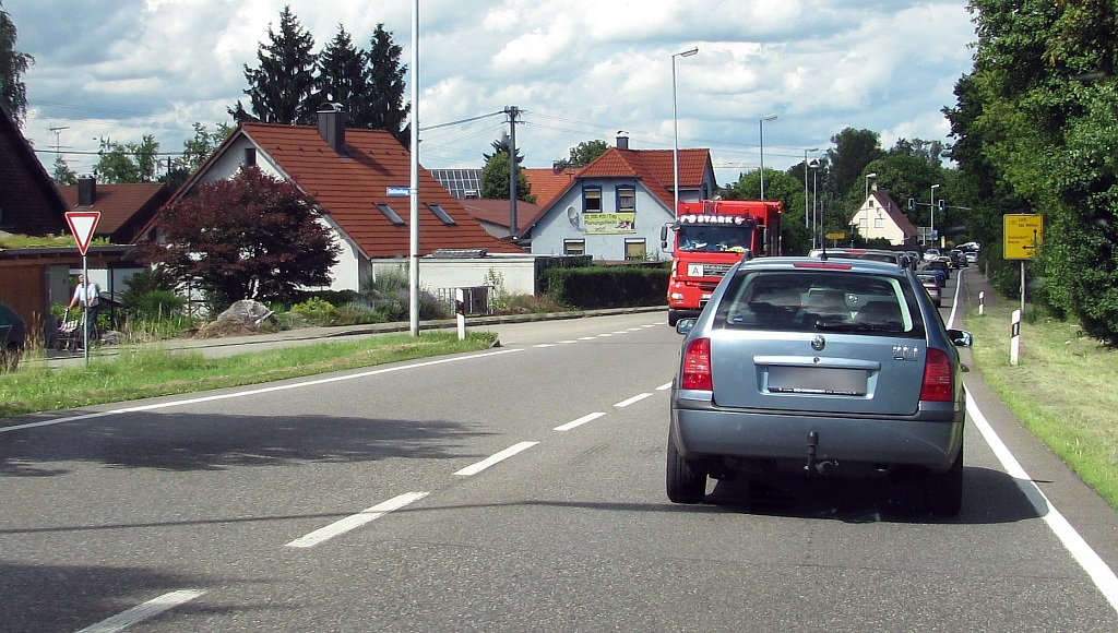 German federal road B 30 entering Gaisbeuren